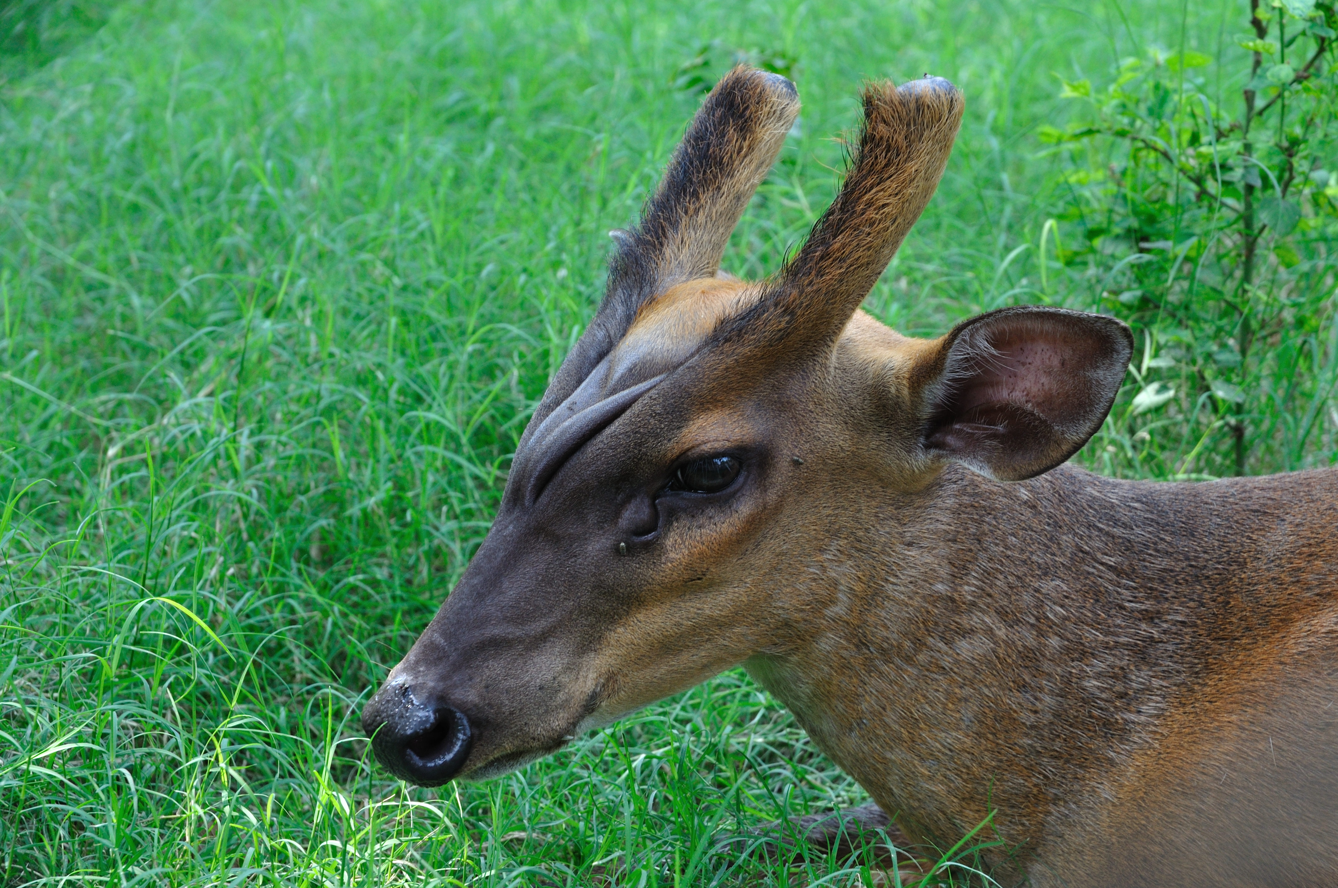 Muntjac, also known as Barking Deer, are small deer of the genus Muntiacus. Muntjac are the oldest known deer, appearing 15-35 million years ago, with remains found in Miocene deposits in France, Germany and Poland.